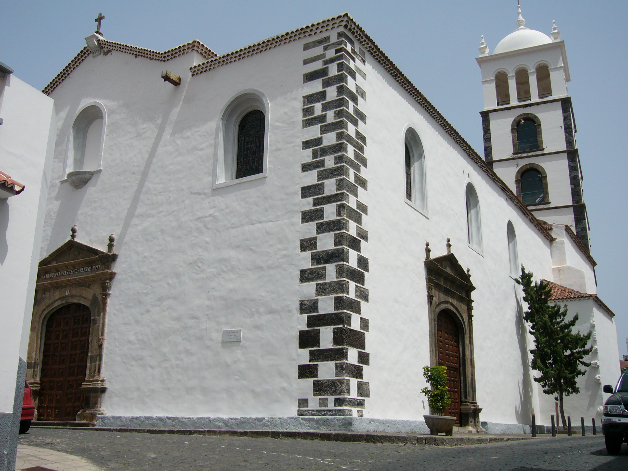 Garachico, Tenerife, Canary Islands, Spain; Sept. 2005; Olaf A. Koch; own picture